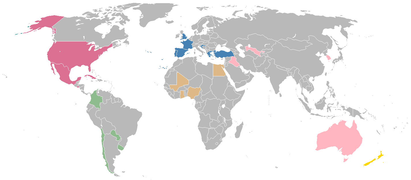 Teams of the 2013 FIFA U-20 World Cup.